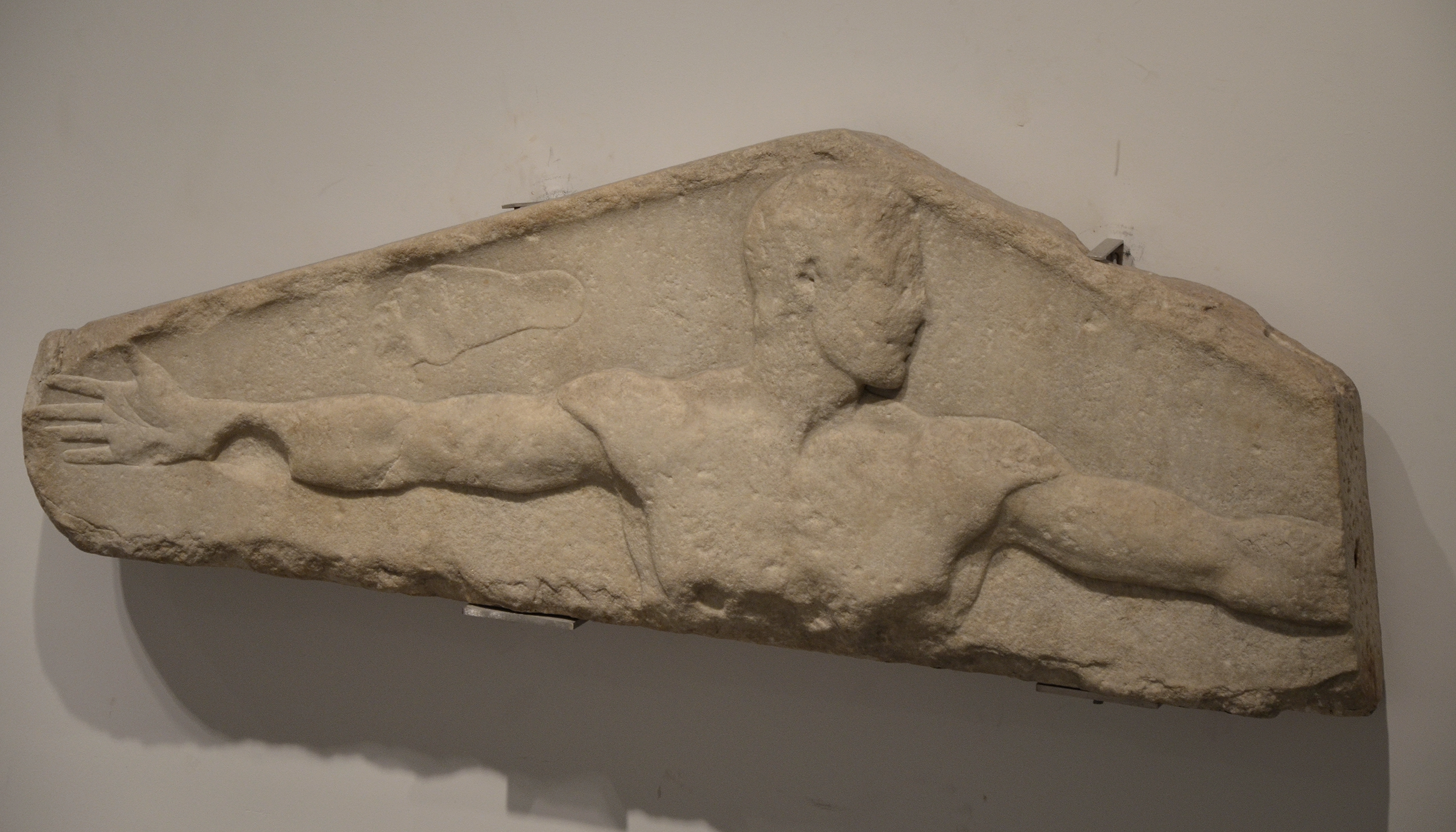 Probably found in western Asia Minor (modern Turkey) or on one of the off-shore islands (modern Greece) in 1625-6, when William Petty, chaplain to Thomas Howard, Earl of Arundel was collecting classical sculpture and inscriptions on behalf of his employer. A marble slab roughly triangular in shape carved in relief with the upper body of a man looking to his left and with his arms outstretched. The slab is broken across the left forearm. The slab is 2.09 m long, 62 cm high in the centre, and the height of the side that is still complete is 26.15 cm. It is approximately 10 cm thick. The marble has been analysed and is neither from Athens nor Paros (two major sources of white marble). It may have been quarried in modern Turkey or another Greek island. Until 1988, the Oxford piece was the only known metrological relief. Then another example was discovered on Salamis, near Athens.